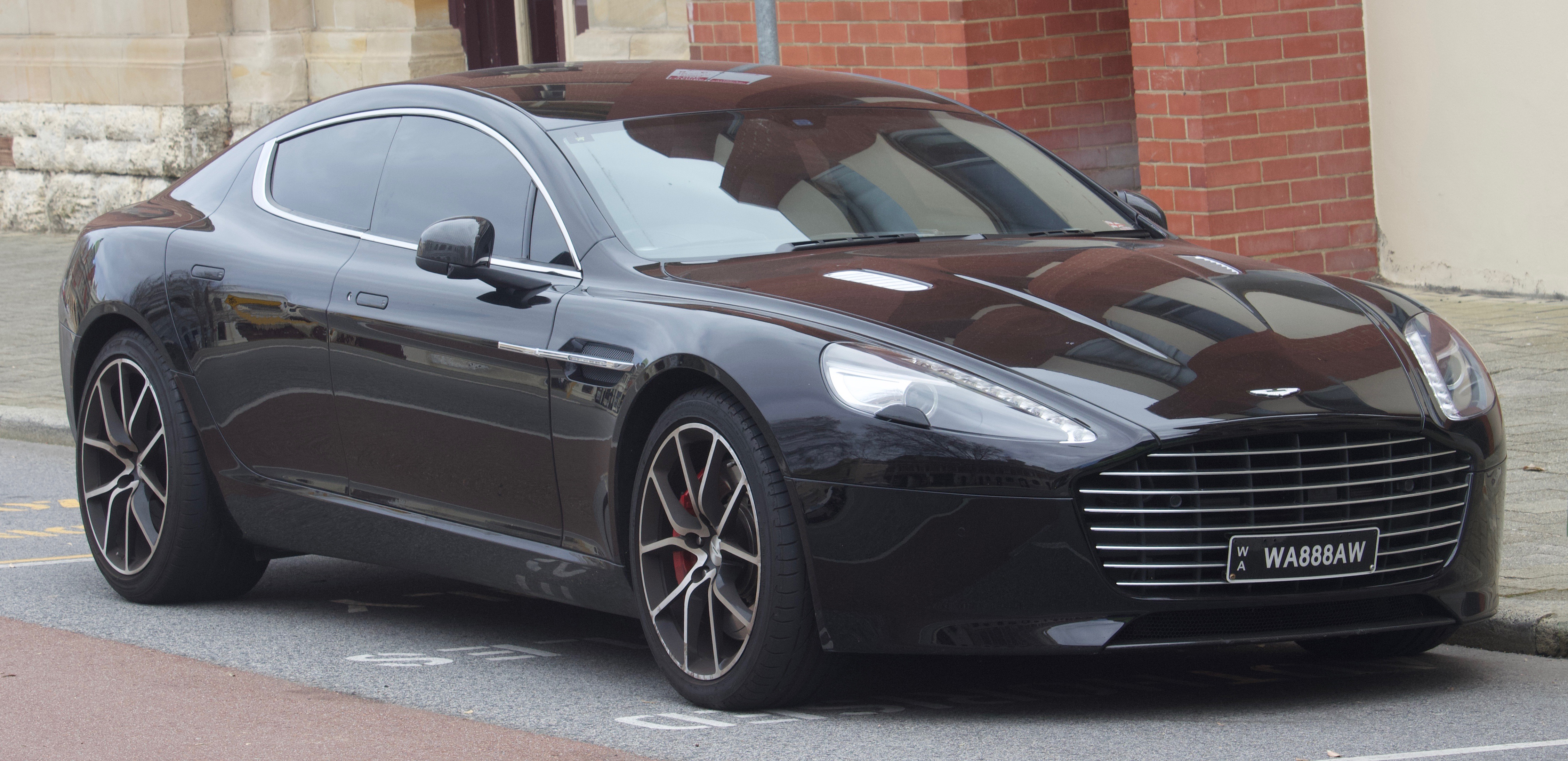 2014-2018 Aston Martin Rapide S sedan. Photographed in Fremantle, Western Australia, Australia.